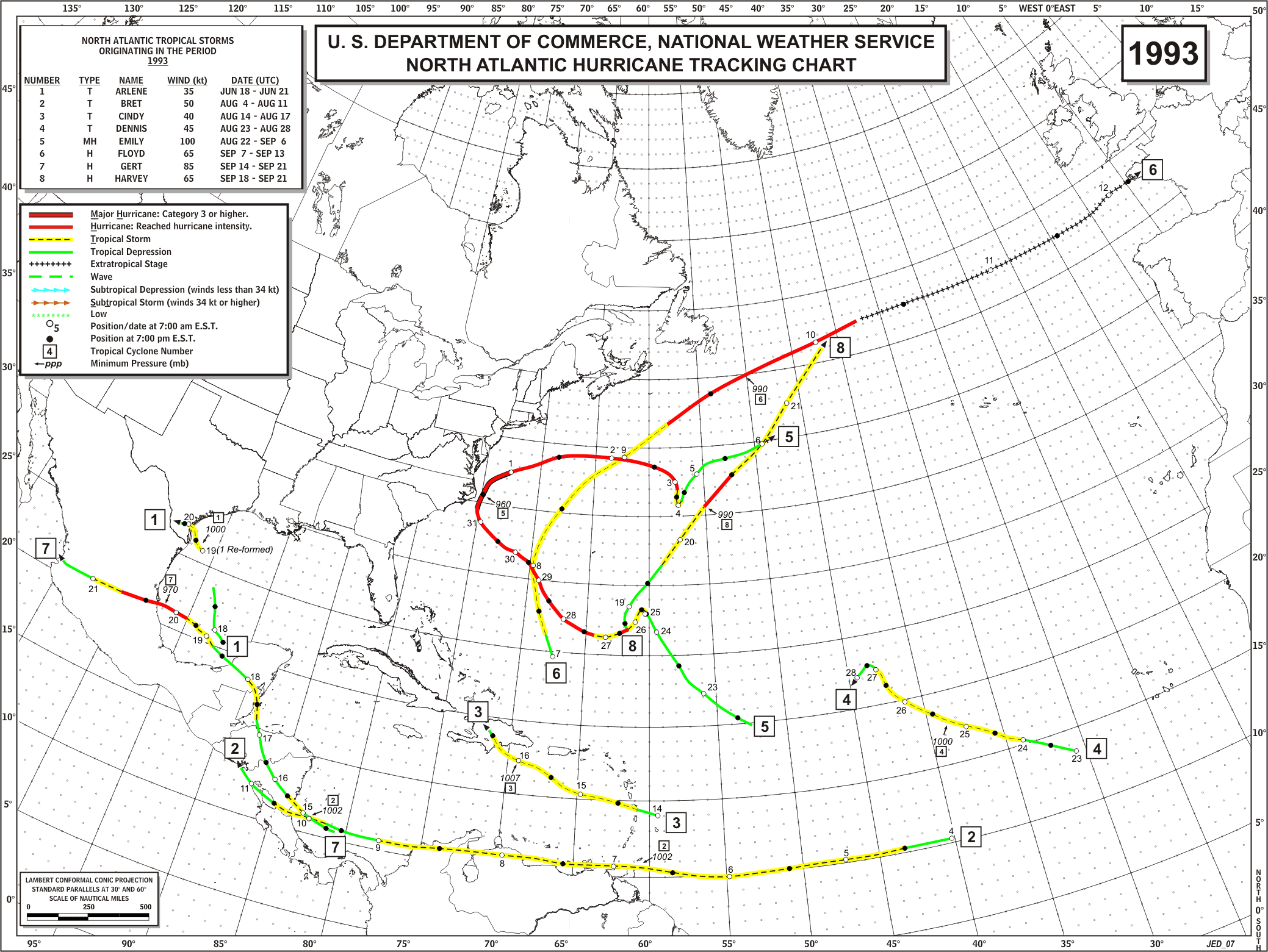 Season summary provided by NOAA of the 1993 Atlantic hurricane season.